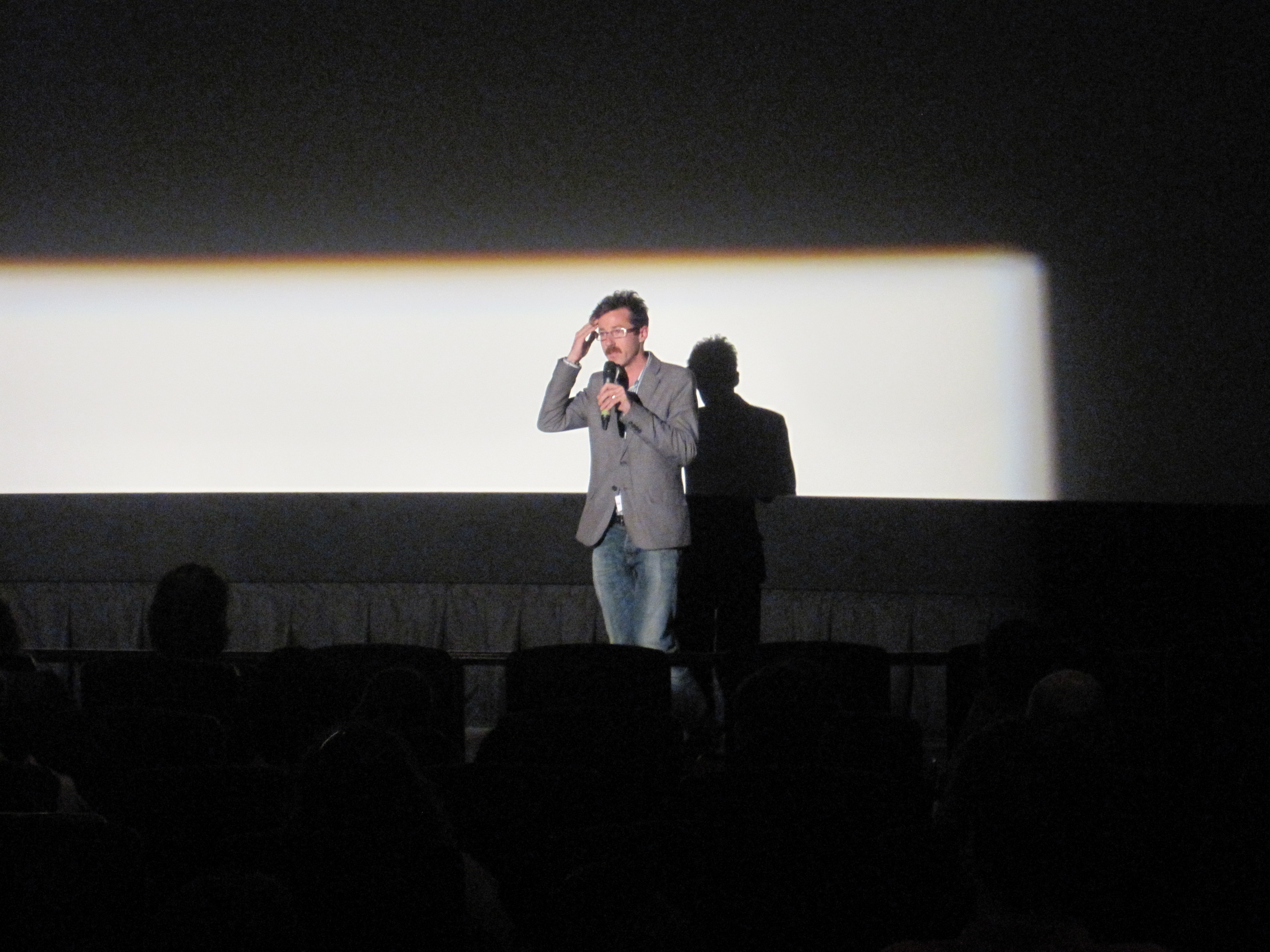 YOU ARE HERE director Daniel Cockburn leads a post-show Q&A. Or rather, Q&more Q...